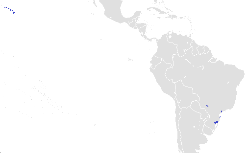 Known distribution of Endeavouria septemlineata